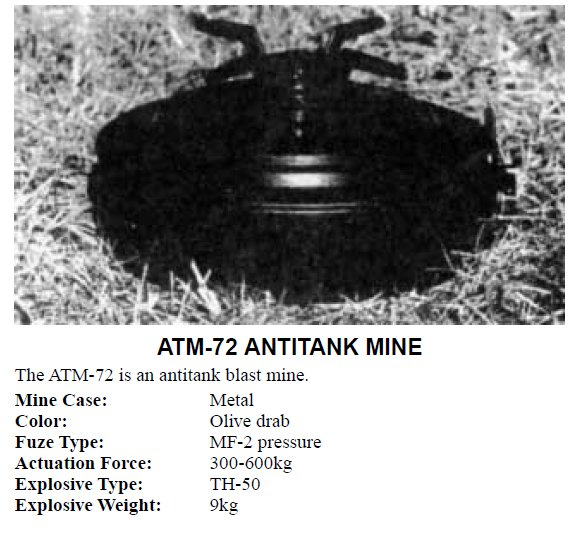 The ATM-72 is an antitank blast mine. Mine Case: Metal Color: Olive drab Fuze Type: MF-2 pressure Actuation Force: 300-600kg Explosive Type: TH-50 Explosive Weight: 9kg